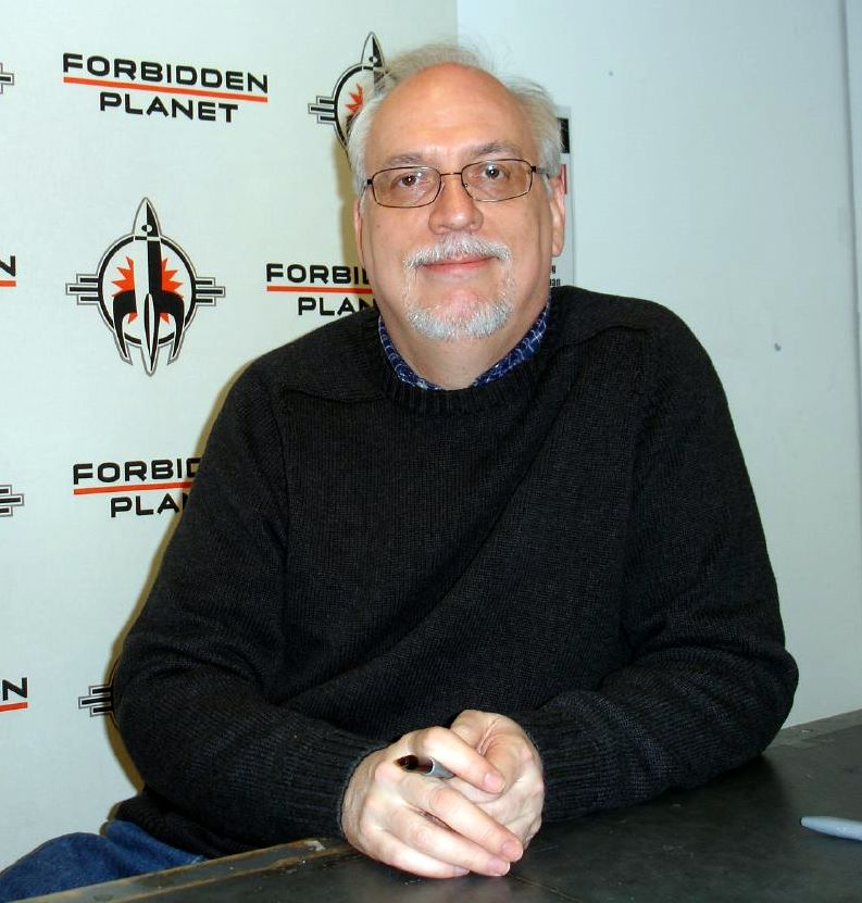 J. Michael Straczynski, the creator of Babylon 5 and co-writer of Marvel's Civil War series, signing autographs at Forbidden Planet London on 12th May 2007